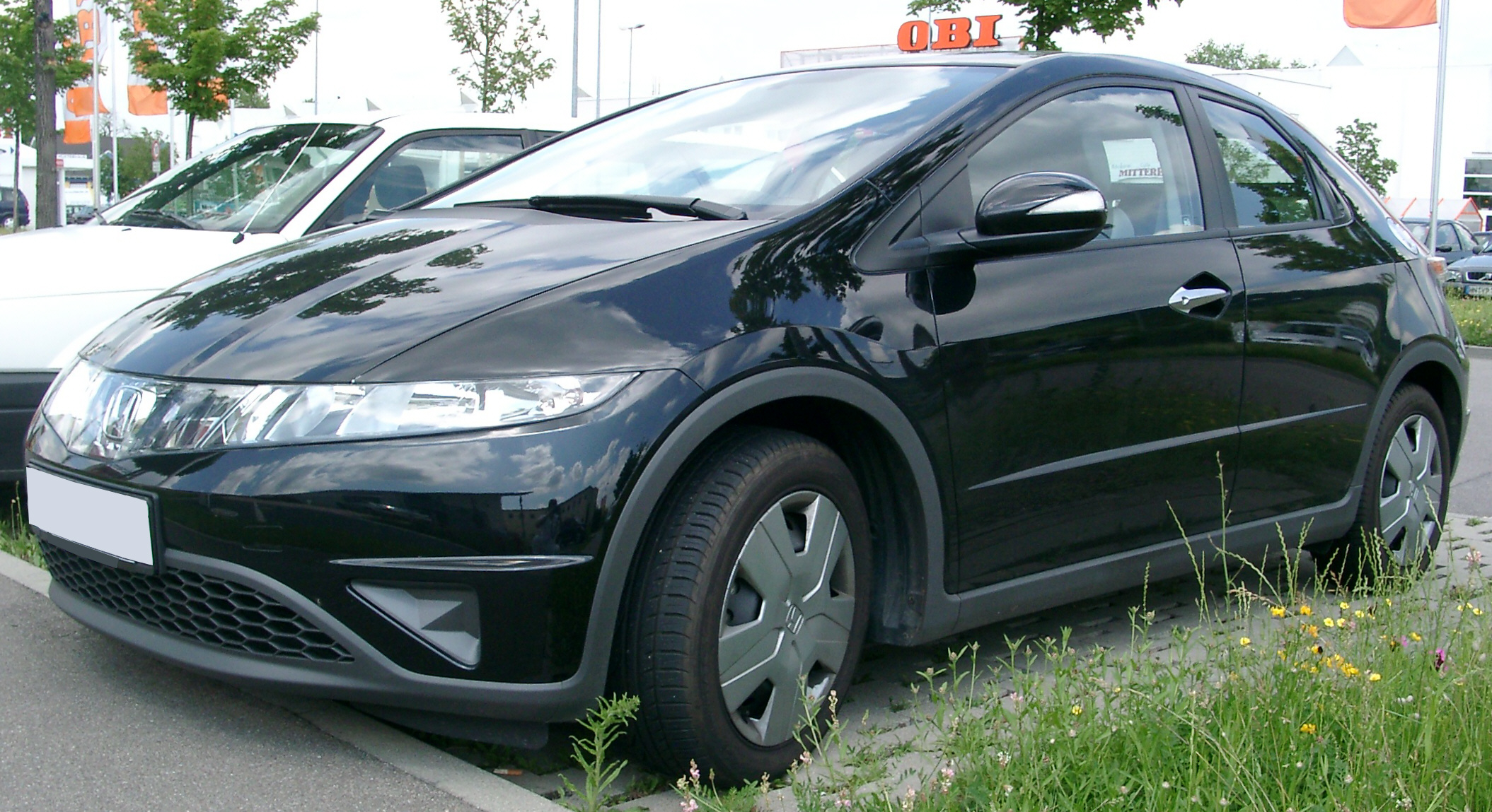 Honda Civic, 8. Generation